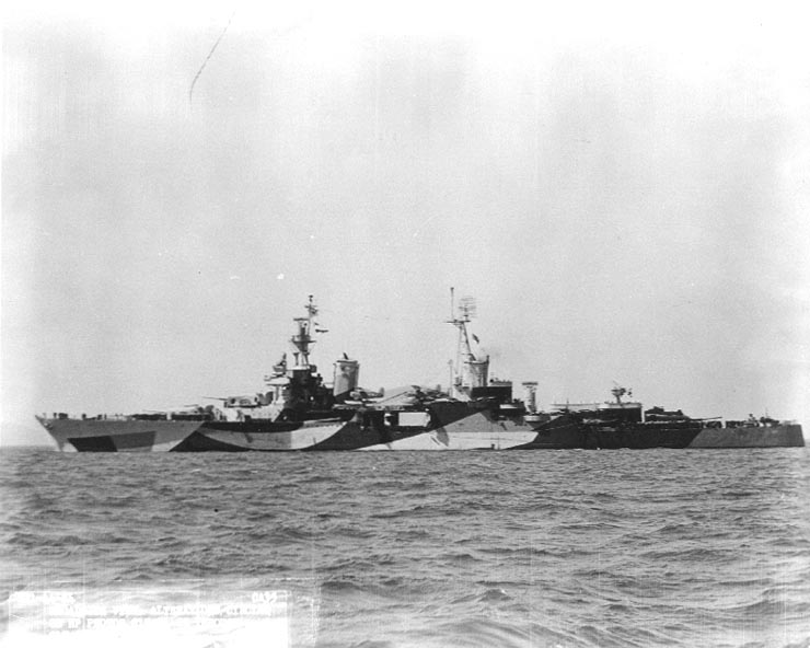 The U.S. Navy heavy cruiser USS Indianapolis (CA-35) off San Francisco, California (USA), on 1 May 1944, after overhaul and repainting with pattern Camouflage Measure 32, Design 7D.